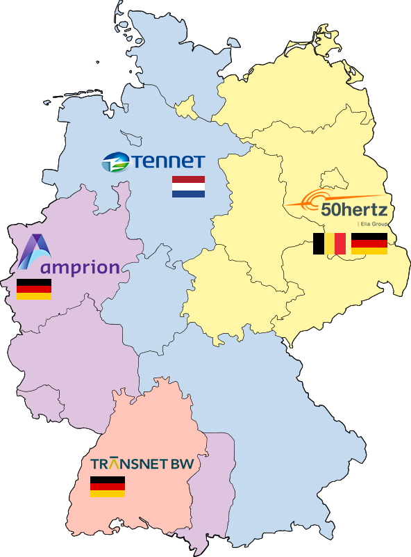 Control areas of the four transmission system operators (TSO) for electrical power in Germany